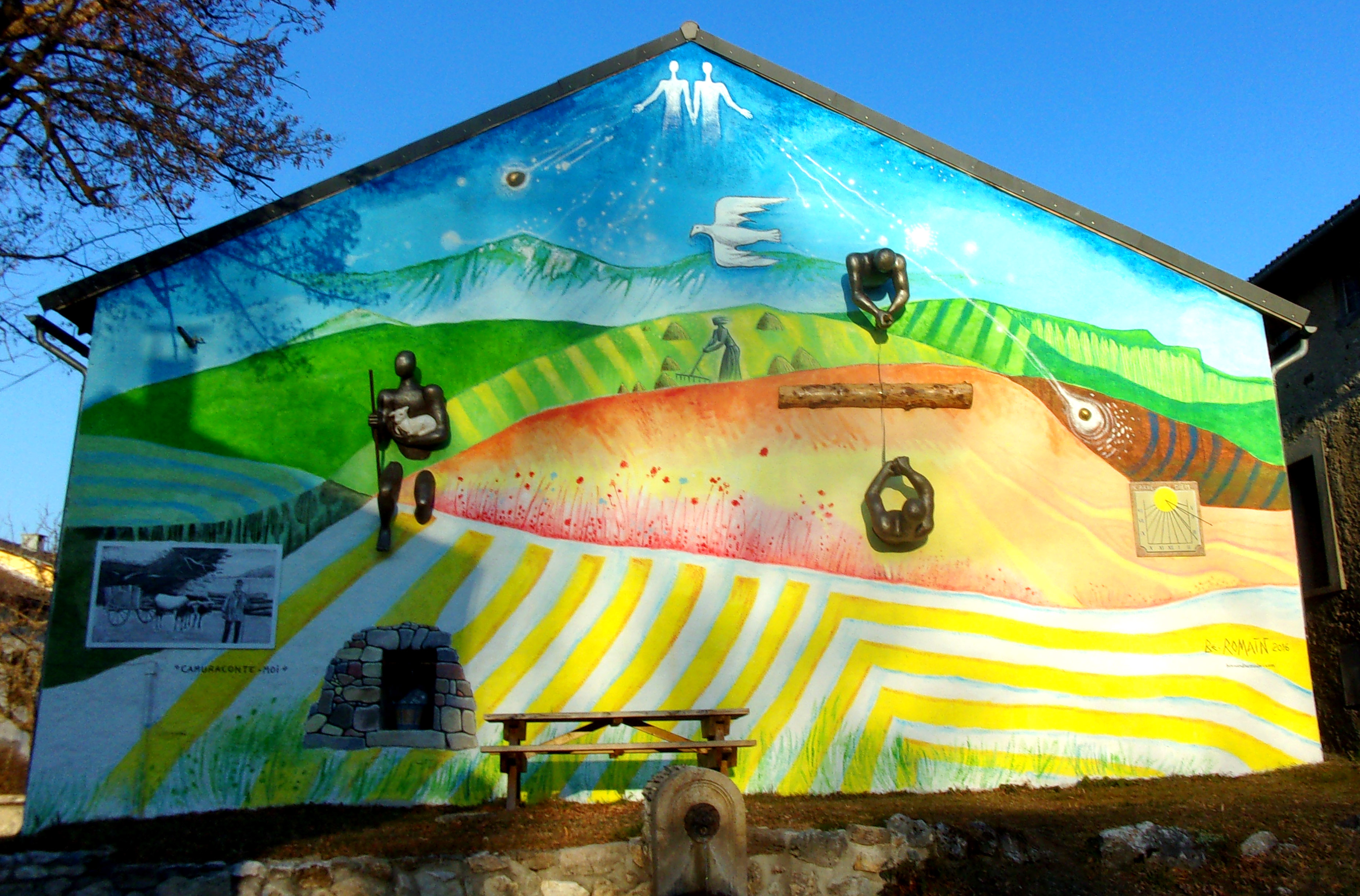 Fresque murale de Bernard Romain à Camurac, intitulée Camuraconte-moi et réalisée en 2016.